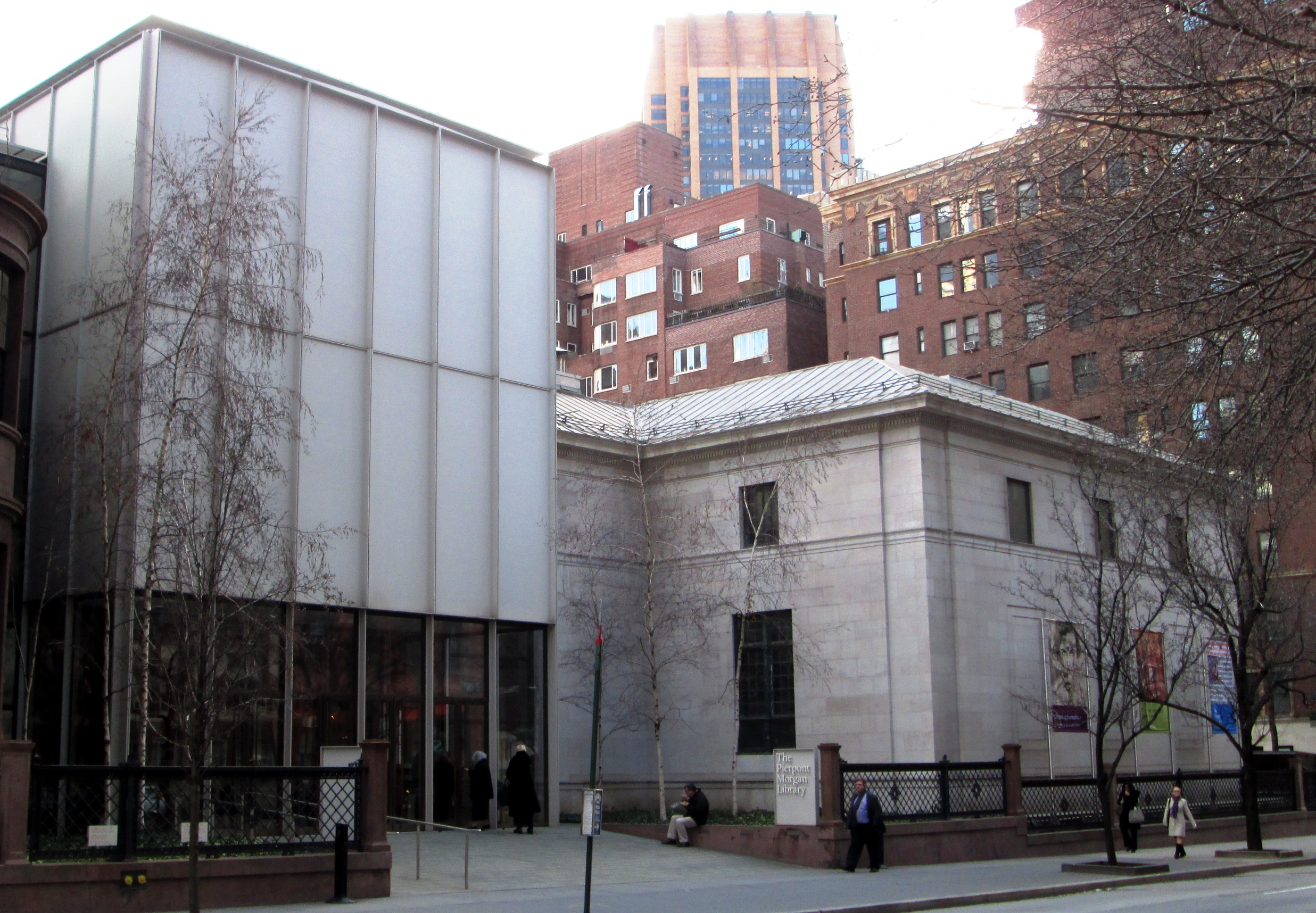 The Morgan Library & Museum (formerly the Pierpont Morgan Library) is a museum and research library located on Madison Avenue at East 36th Street in Manhattan, New York City. It was founded in 1907 to house the private library of J.P. Morgan, which included, besides the manuscripts and printed books, some of them in rare bindings, his collection of prints and drawings. The original library building was built from 1902-1907 and was designed by Charles McKim of the firm McKim, Mead and White, with sculptures by Edward Clark Potter. It cost $1.2 million. The library was made a public institution in 1924 by his son, in accordance with Morgan's will. An annex building, designed by Benjamin Wistar Morris, was added in 1927-28, and a modernist entrance building, designed by the Renzo Piano Building Workshop and Beyer Blinder Belle, was added in 2006. (Source: Guide to NYC Landmarks (4th ed.))